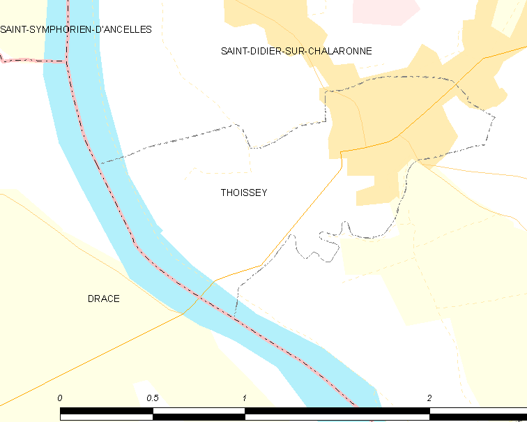 Map of French commune: Thoissey Map commune FR insee code 01420.png